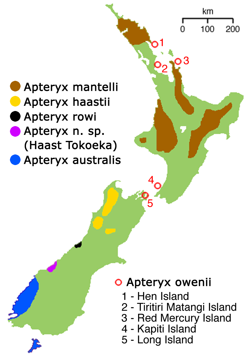 Originally from Image:NZ-kiwimap.png but with scientific names Apteryx mantelli (Brown) Apteryx haastii (Yellow) Apteryx rowi (Black) Apteryx australis australis (Fuchsia) Apteryx australis ? (Blue) Apteryx owenii (Red circle)